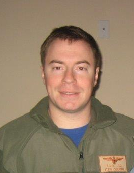 Lt. Miroslav Steven Zilberman, of Columbus, Ohio, assigned to the "Bluetails" of Carrier Airborne Early Warning Squadron (VAW) 121, was killed March 31 2010, when his aircraft crashed while returning to USS Dwight D. Eisenhower (CVN 69) from a mission over Afghanistan.